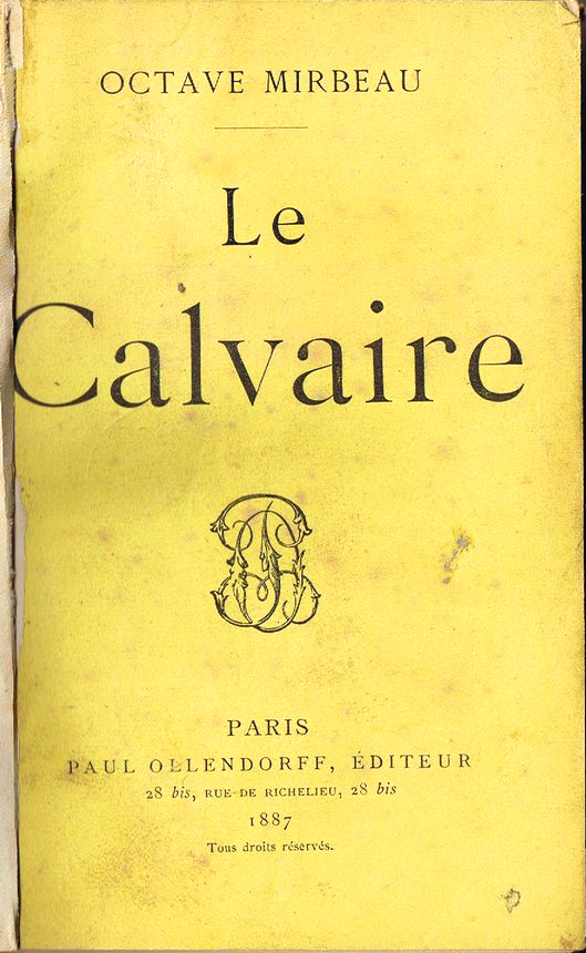 Illustration of The Calvary (1886) by Octave Mirbeau (1848-1917)